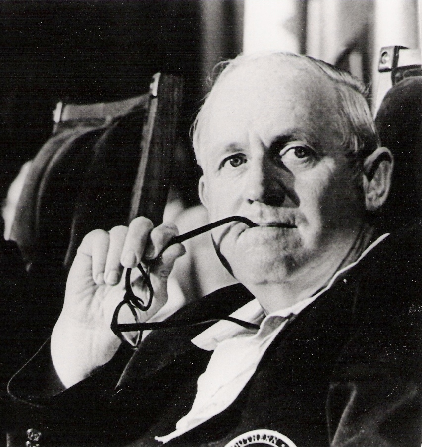 SC Gov. John West in thought.